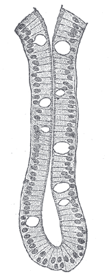 An intestinal gland from the human intestine. (Flemming.)